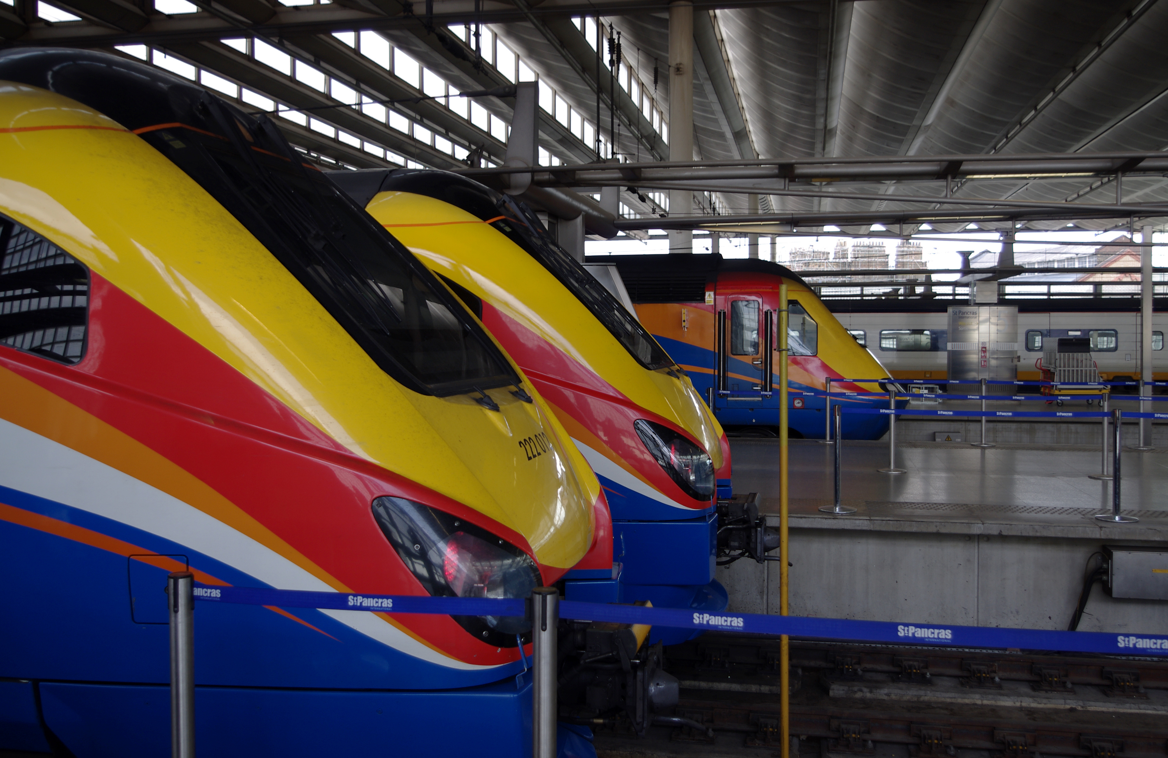 A line up of East Midlands Trains at London St Pancras: from front to back, Meridian DEMUs 222012 and 222003, and HST power car 43055. Compare with this photo of Paddington.